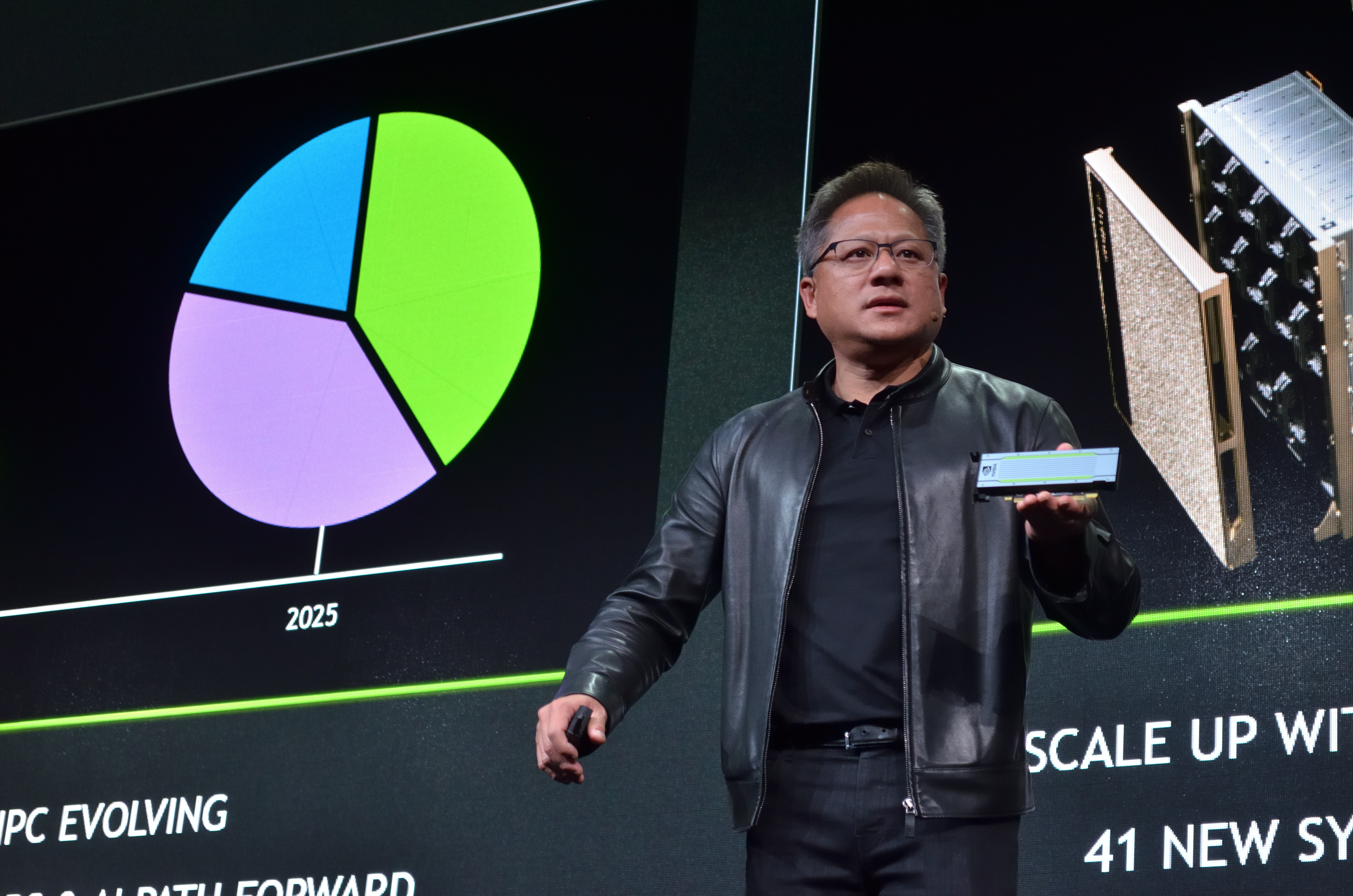 Jensen Huang at SC18